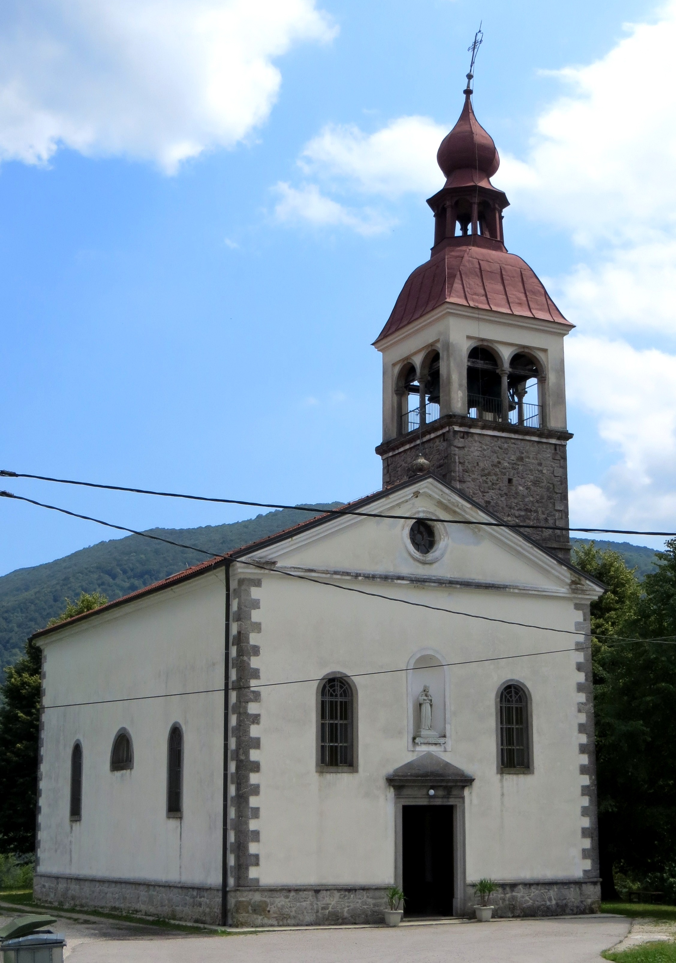 Saints Primus and Felicianus Church in Logje, Municipality of Kobarid, Slovenia